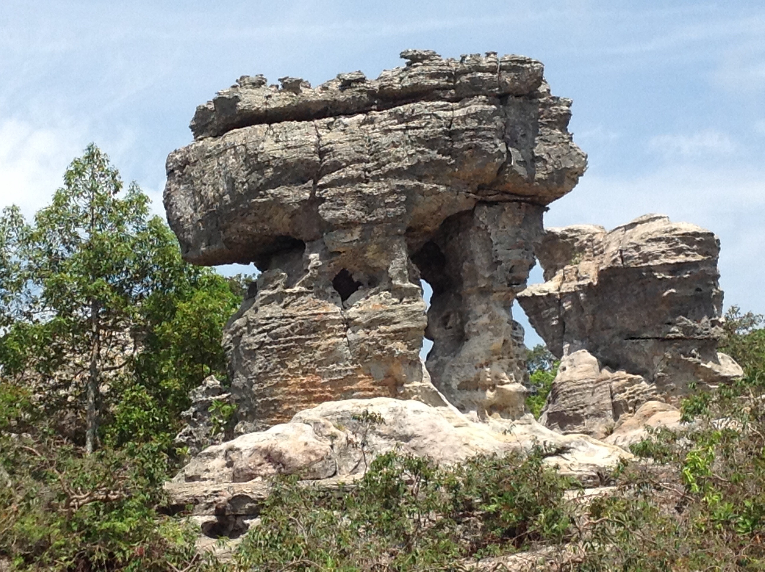 อุทยานแห่งชาติป่าหินงาม